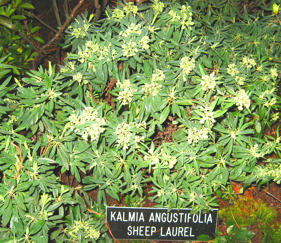 Kalmia angustifolia (Sheep laurel), a native plant Learn more about EPA’s Exhibit at the 2010 Philadelphia International Flower Show: (6 pp, 864K)